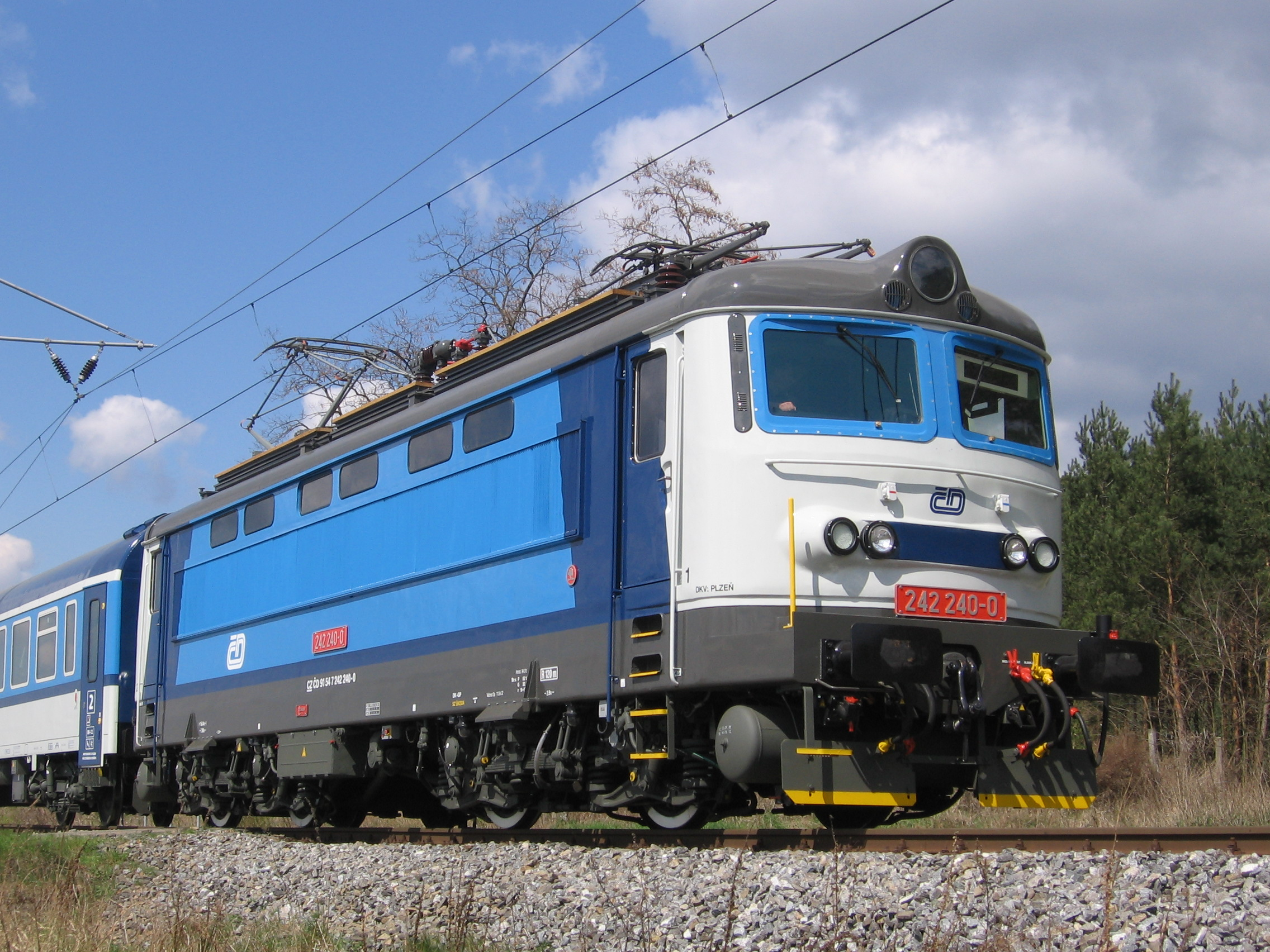 242.240 ČD - little test circuit Cerhenice